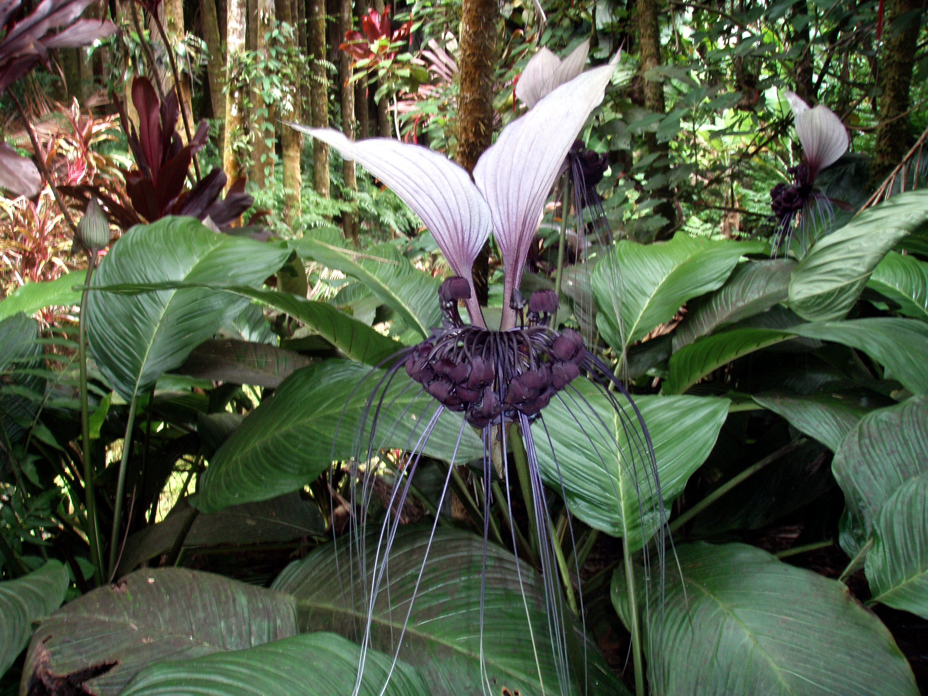 White Bat Flower (Tacca integrifolia)